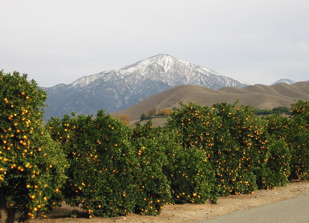 Orange groves in Crafton, at the intersection of Citrus and Crafton Avenues, in San Bernardino County, California. Looking northeast at the Crafton Hills in the middle distance, and San Gorgonio Mountain in the far distance.